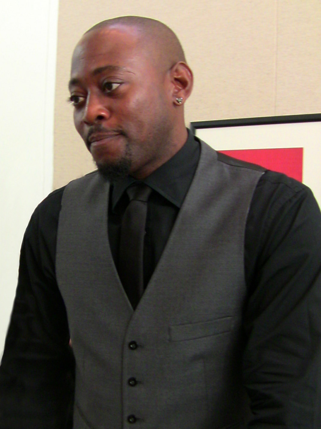 Actor Omar Epps at TV series House event at Paley Center for Media, Beverly Hills, California.